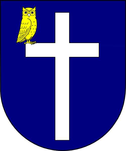 Coat of arms (shield only) of Štefan Moyses, bishop of Banská Bystrica, Slovakia (1851 - 1869)